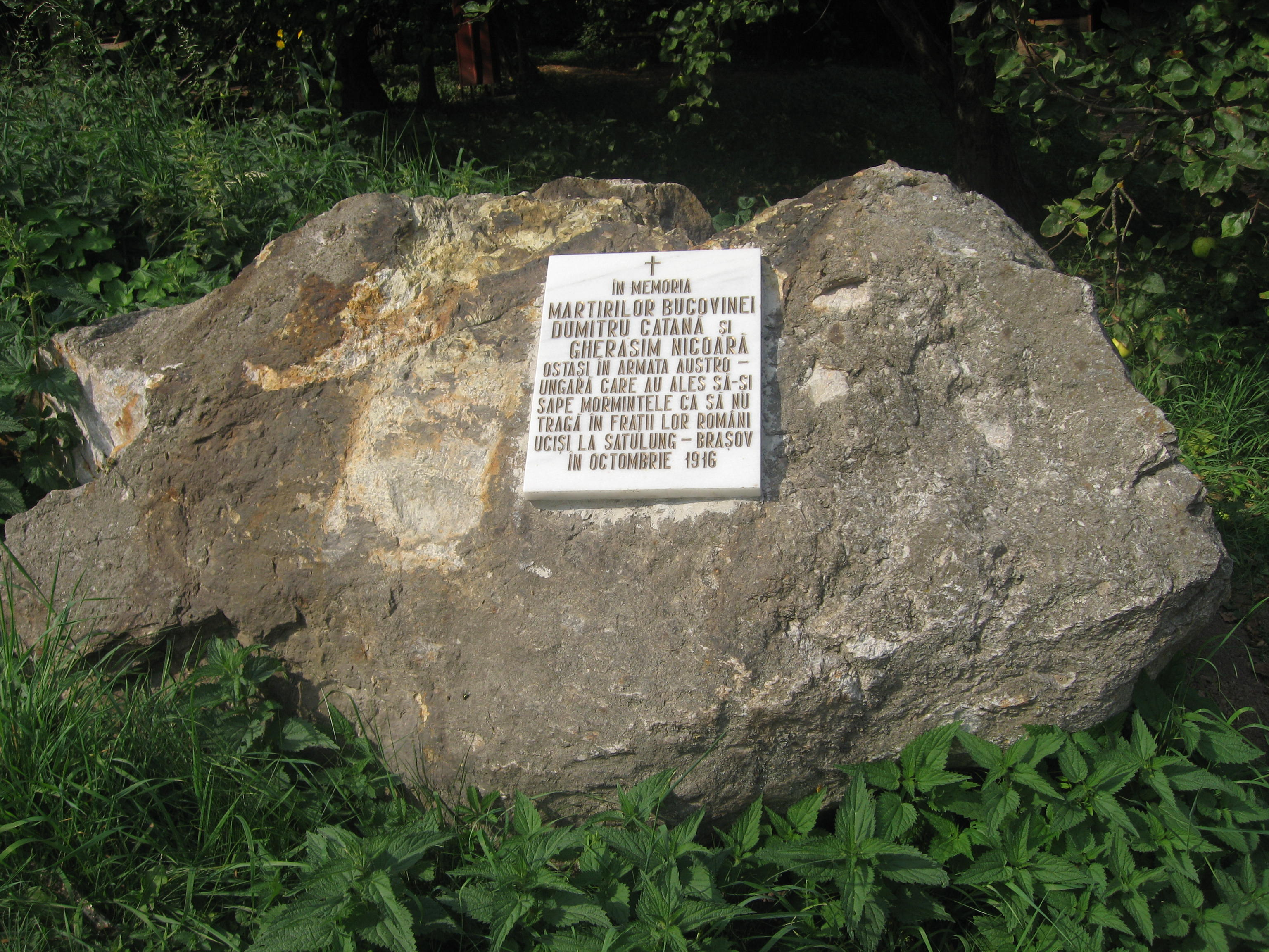 Bukovina Village Museum - Memorial stone of Bukovinean martyrs Dumitru Cătană and Gherasim (Zamfir) Nicoară.